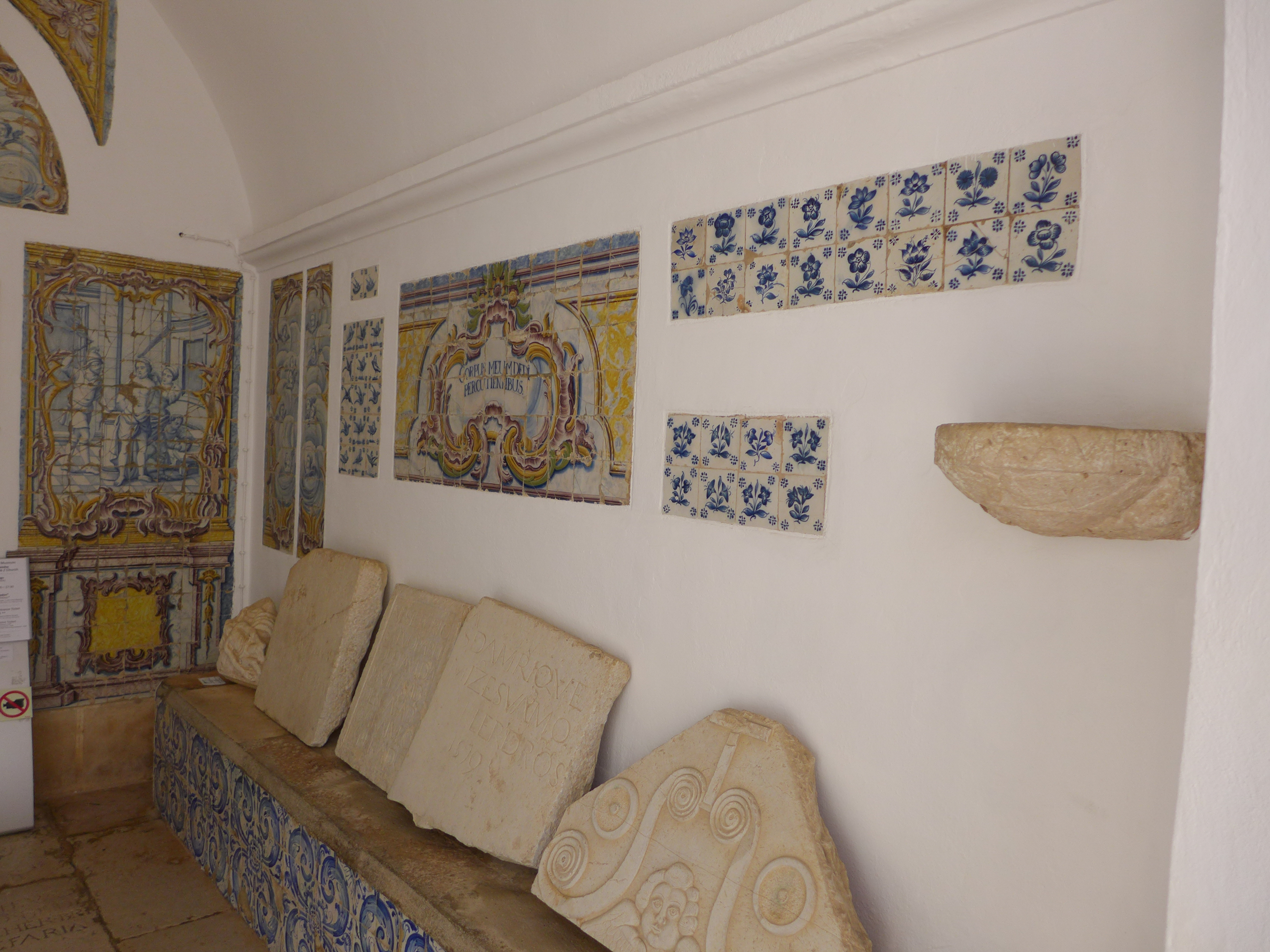 Museu Regional de Lagos, Lagos, Portugal October 2016